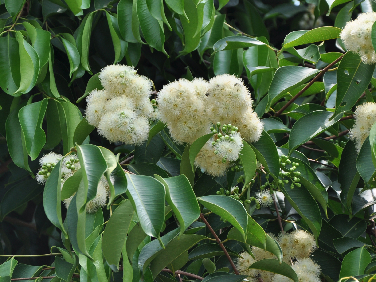 Syzygium grande in bloom